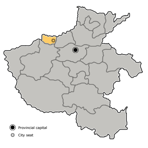 The sub-prefecture-level city of Jiyuan is highlighted on this map of Henan province, People's Republic of China.